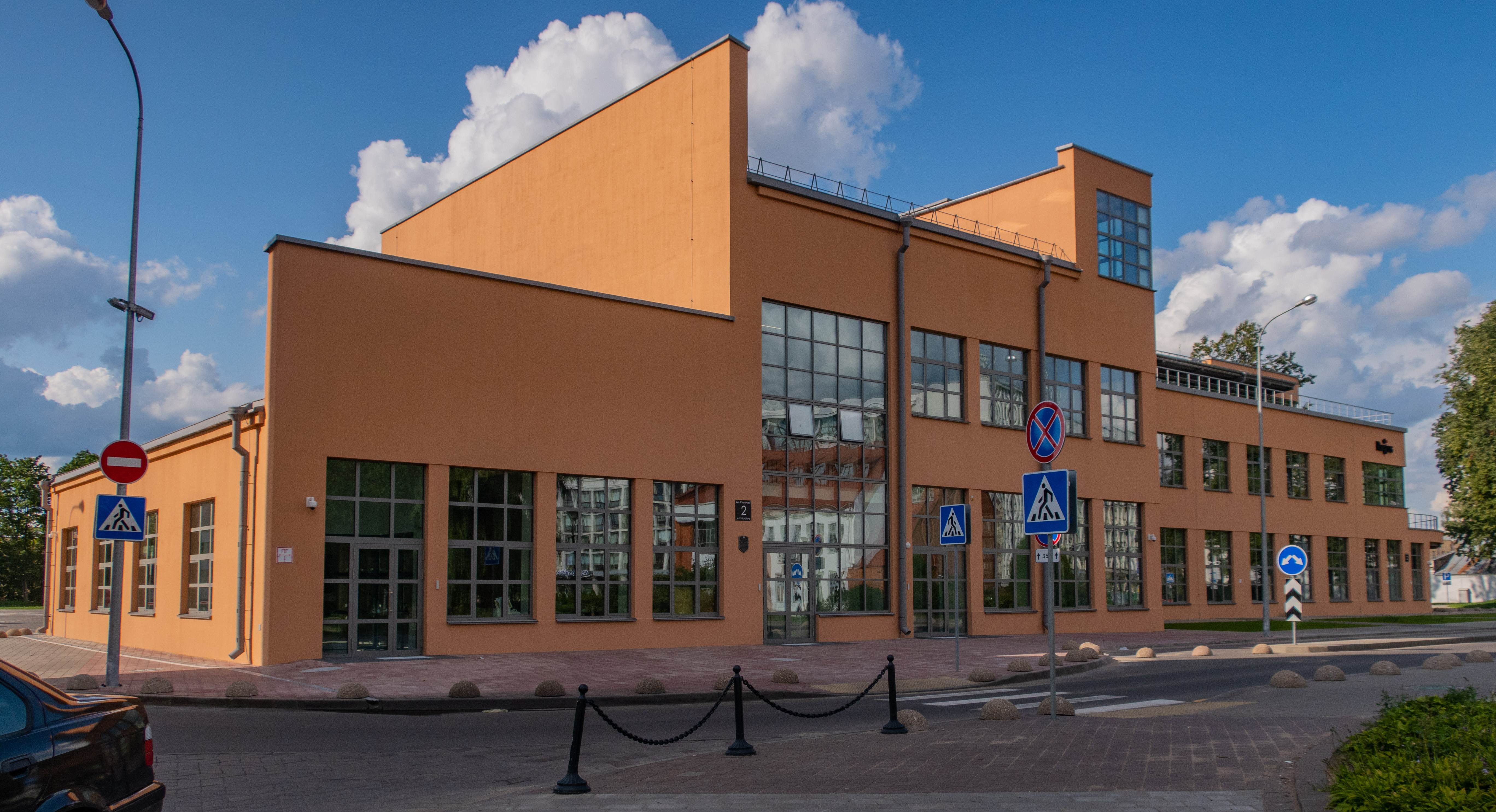 Constructivist factory-kitchen. Sviardlova street, Minsk, Belarus